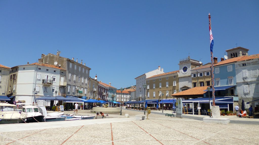 Cres Main Piazza